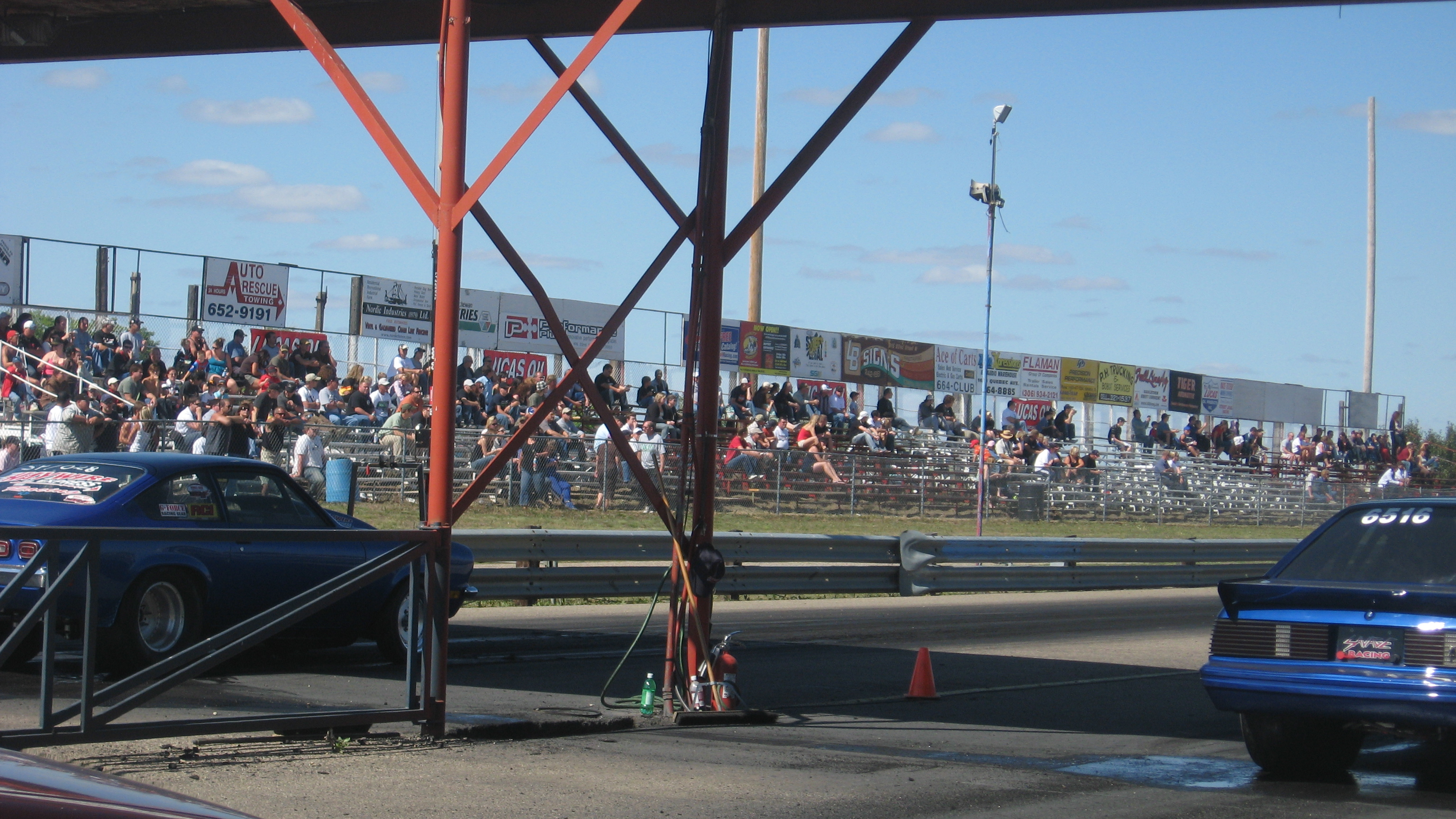 East bleachers at SIR, drag strip 13km outside Saskatoon, SK, shot from staging lanes